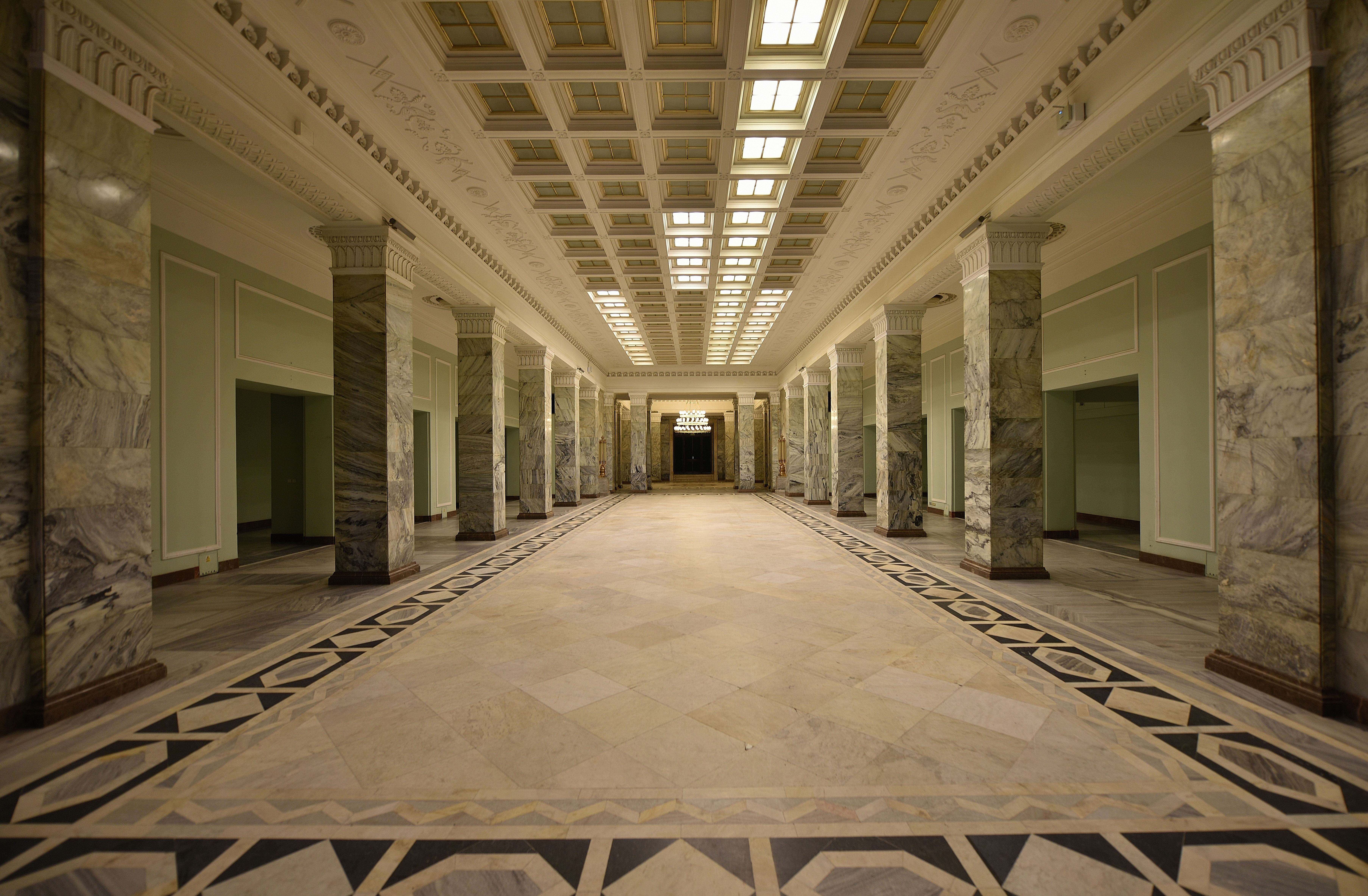 Marble Hall at the Palace of Culture and Science in Warsaw